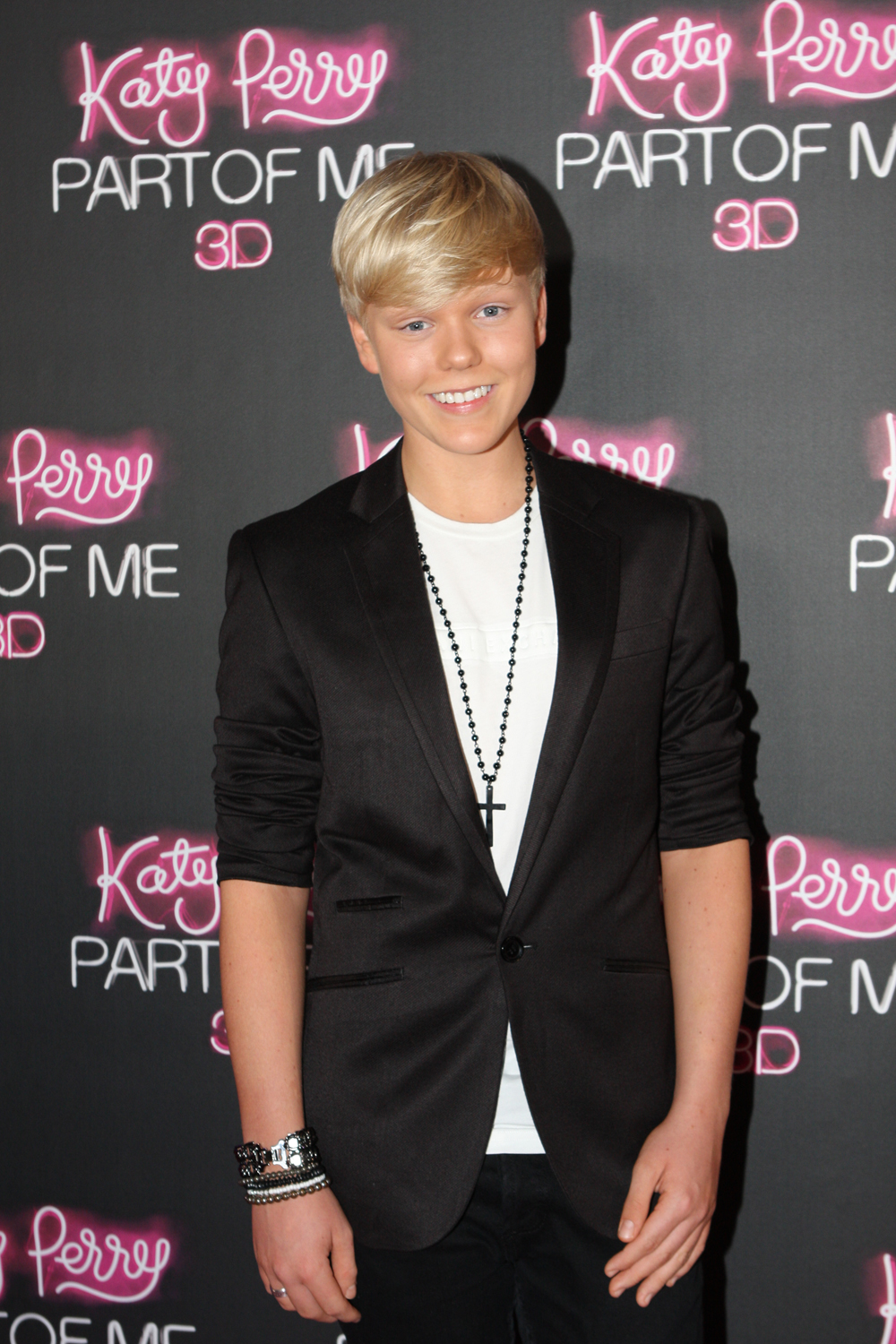 Jack Vidgen at the Australian premiere of Katy Perry Part Of Me in Sydney, Australia.